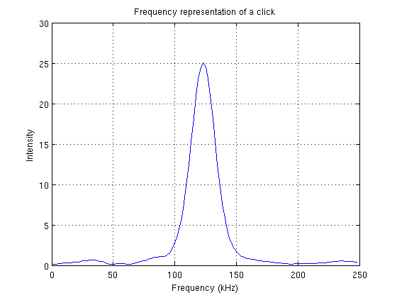 Frequency representation of a dolphin click